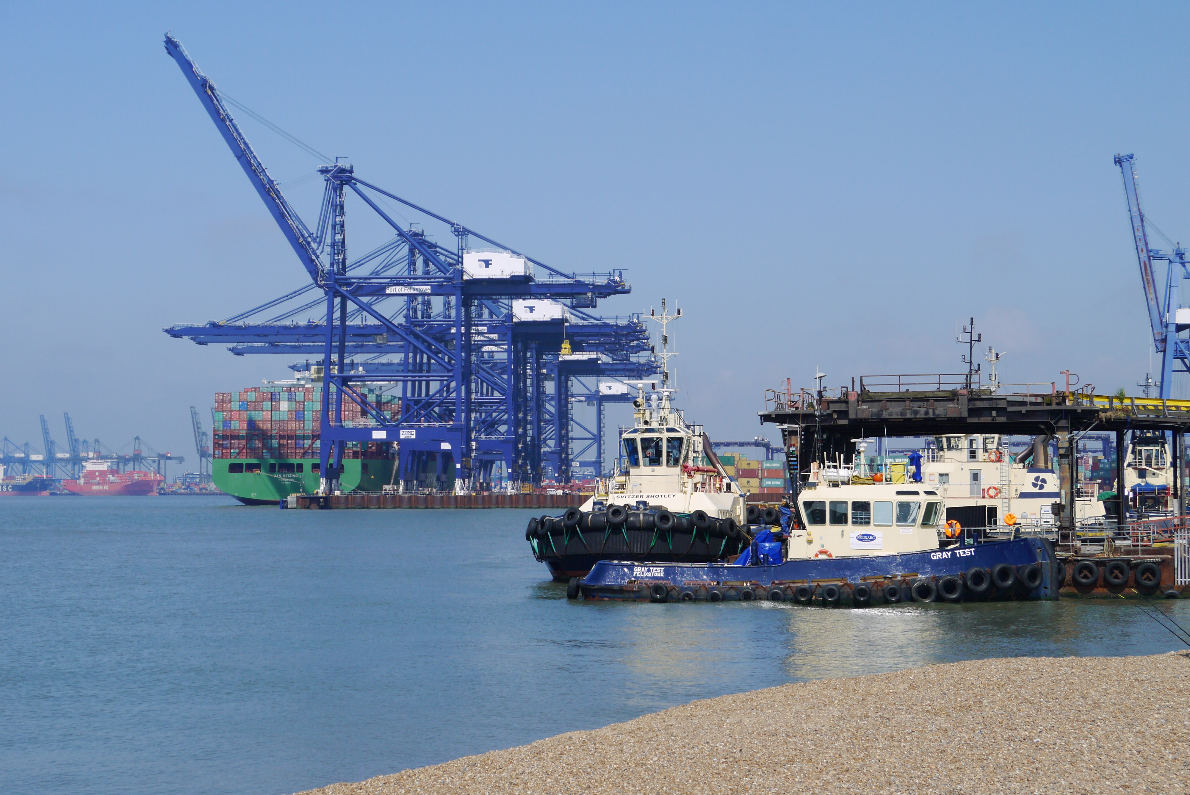 Port of Felixstow.